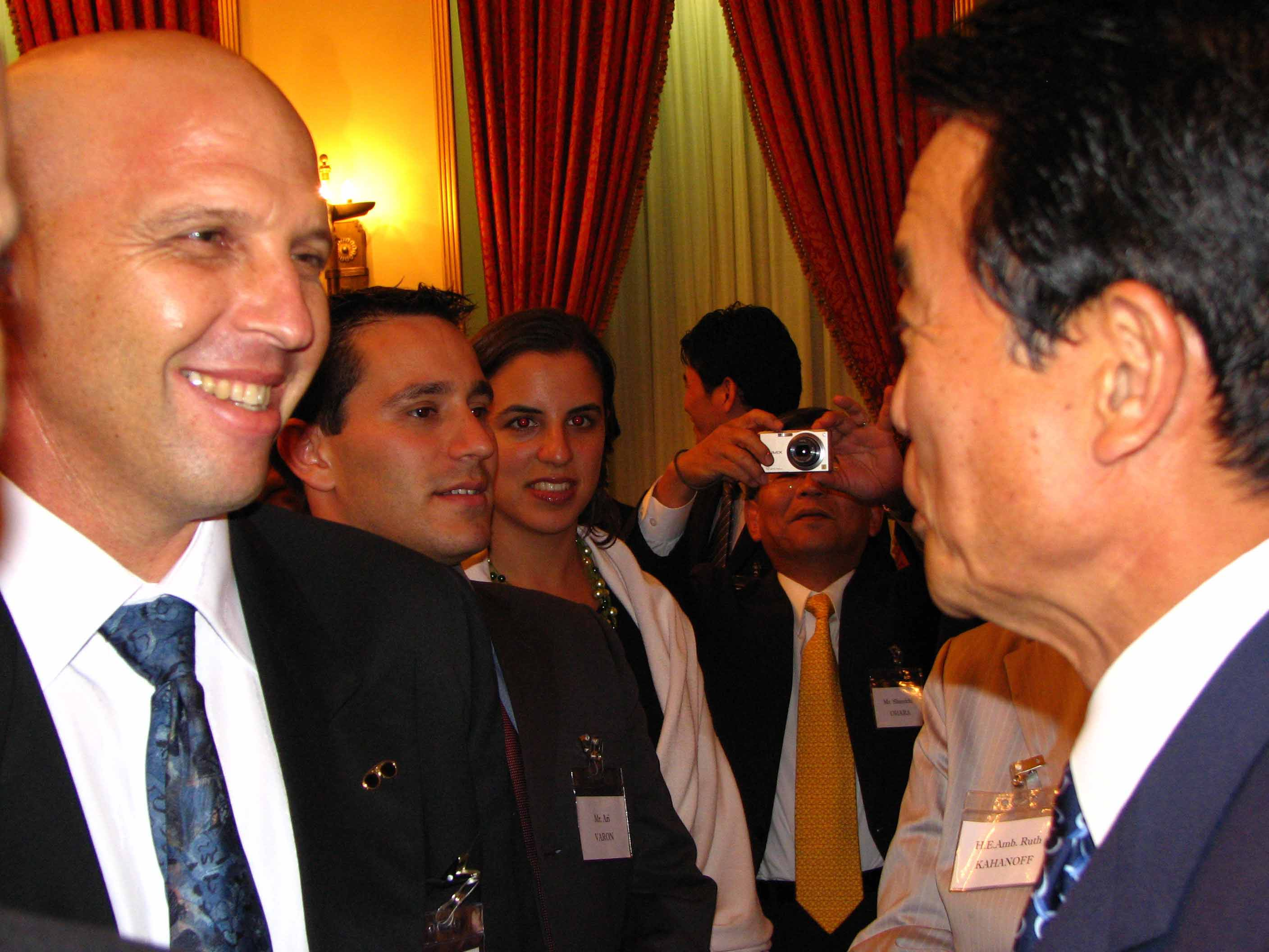 President of the Israeli sumo federation, Eldad Ben-Horin, with Japanese Prime Minister, Asō Tarō